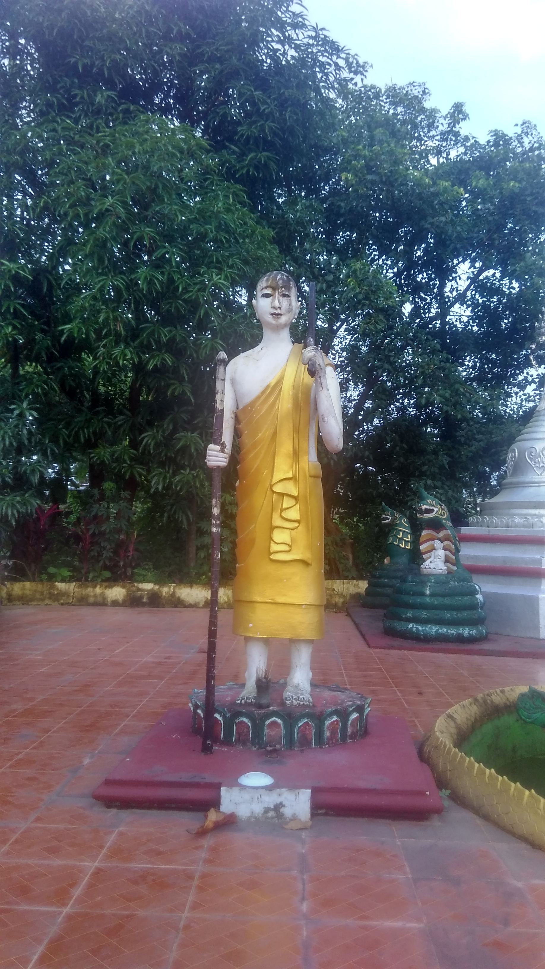 Buddhist Monk's Statue မြန်မာဘာသာ: ဗုဒ္ဓဘာသာရဟန်းရုပ်တု။ တြိရတနပရိယတ္တိစာသက်တိုက်၊ စက်မှု (၅) လမ်း၊ မေတ္တာညွန့်ရပ်ကွက်၊ တာမွေမြို့နယ်ရှိ ရဟန်းရုပ်တုကို ဓာတ်ပုံရိုက်ယူသည်။